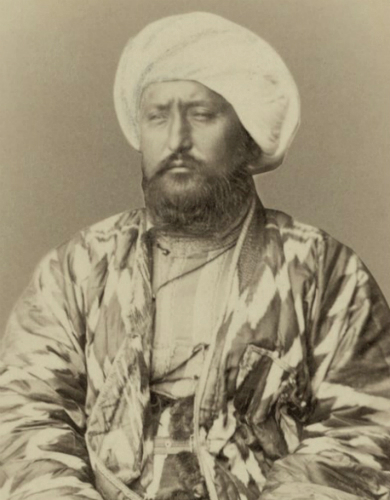 Cropped image for portrait from Portrait of Khudayar Khan.jpg. Dust blemishes in background removed, contrast and lighting improved.